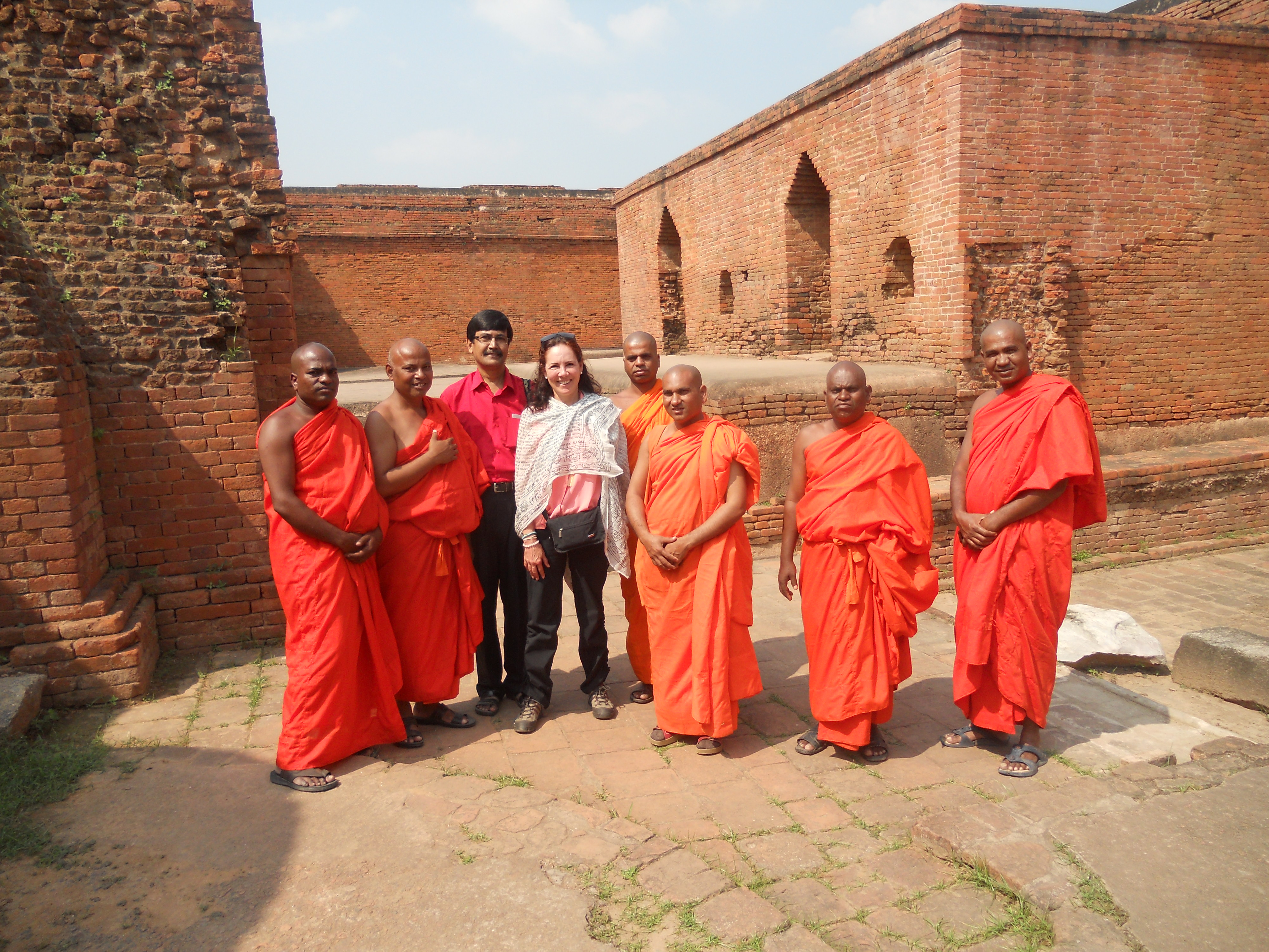 Some visitors in Nalanda Ruins, in the state of Bihar, India.